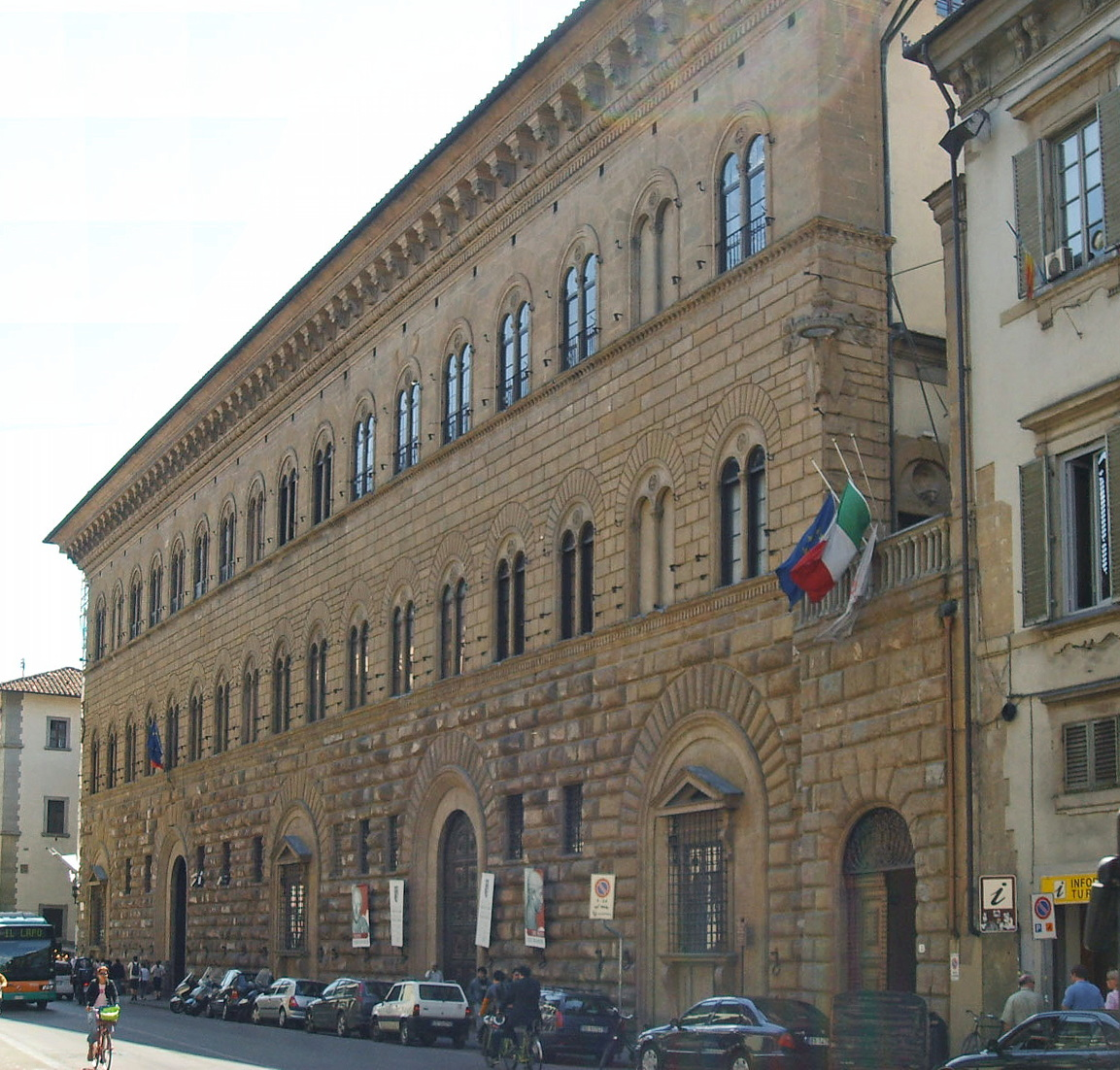 Facade of Palazzo Medici Riccardi in Florence, Italy.